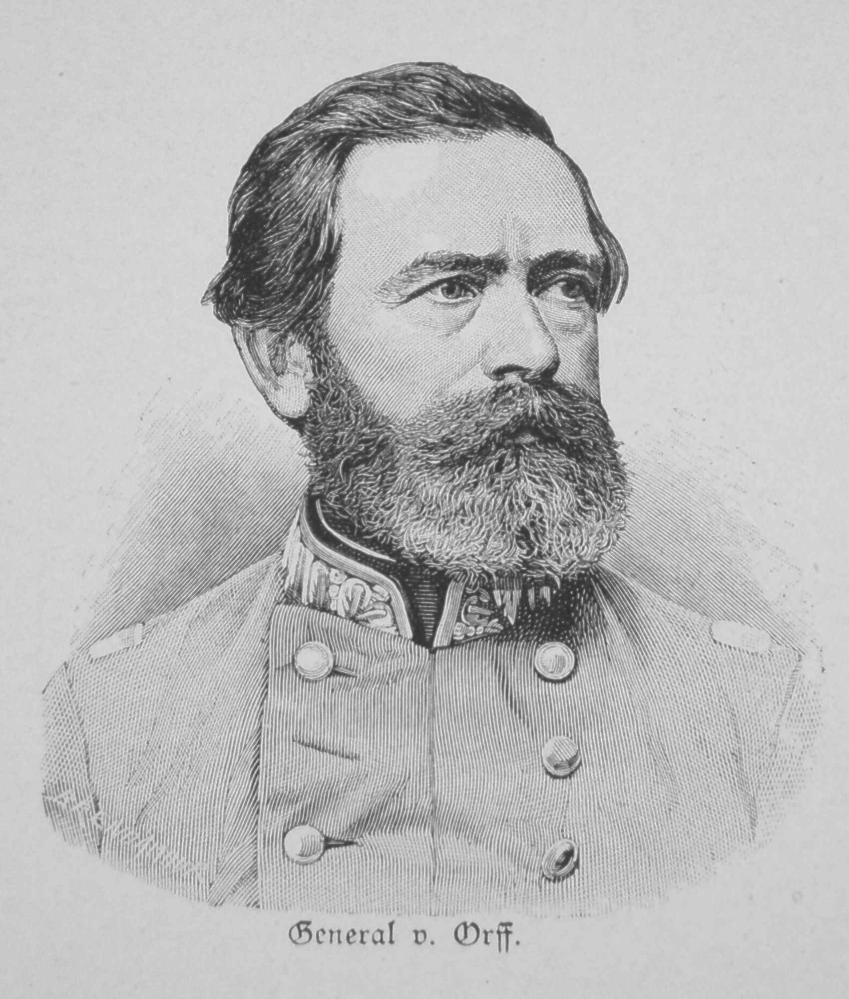 general von Orff